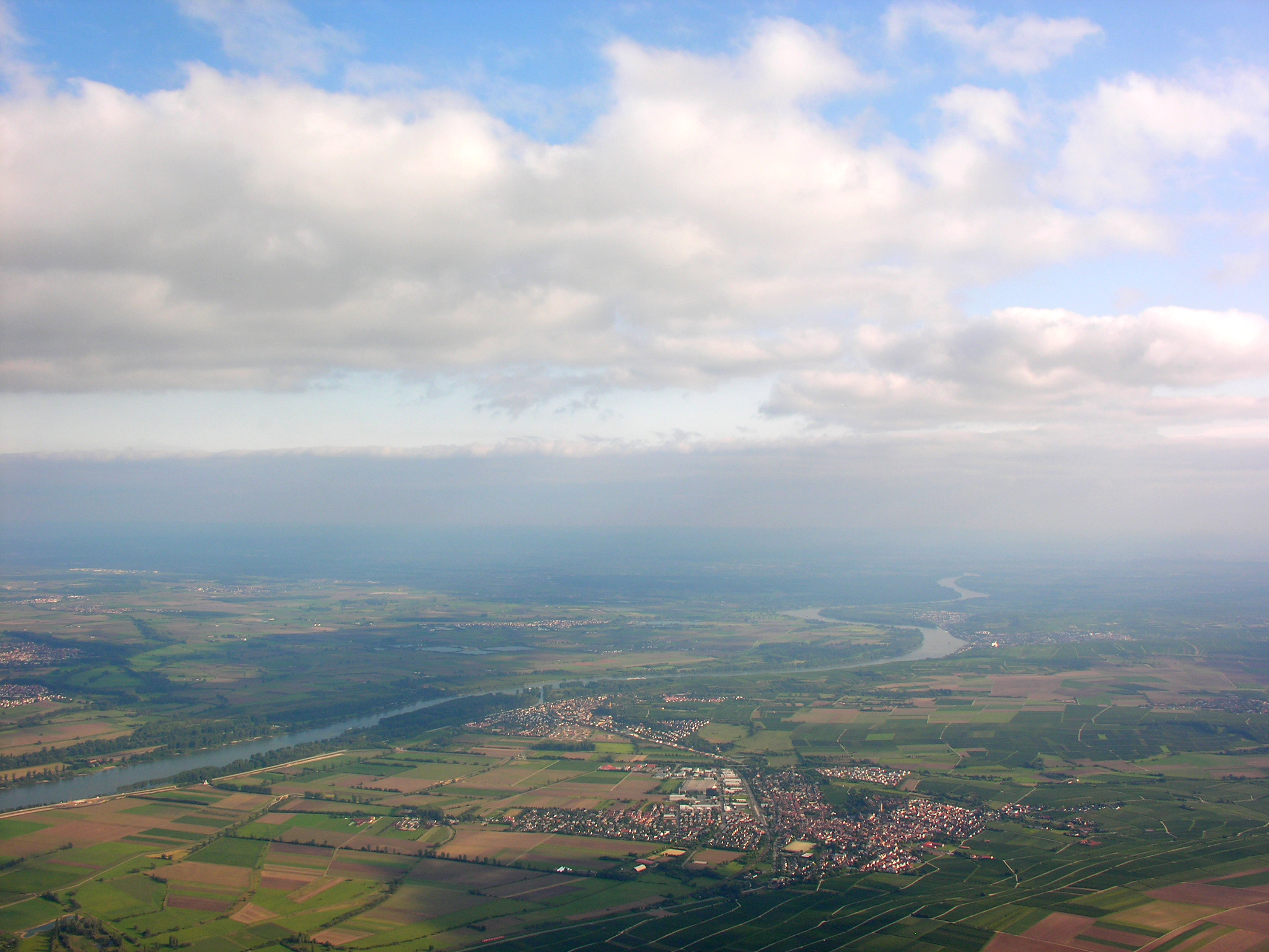 Aerial View of Bodenheim and Nackenheim